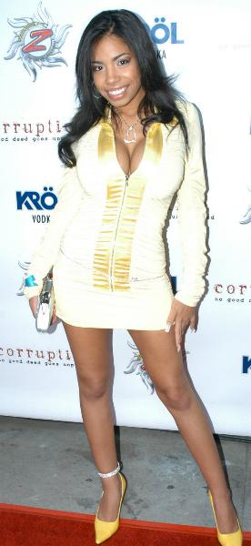 Havana Ginger at Bryn Pryor's Corruption Party, November 11 2006